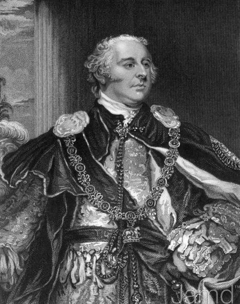 Portrait of John Pratt, 1st Marquess Camden